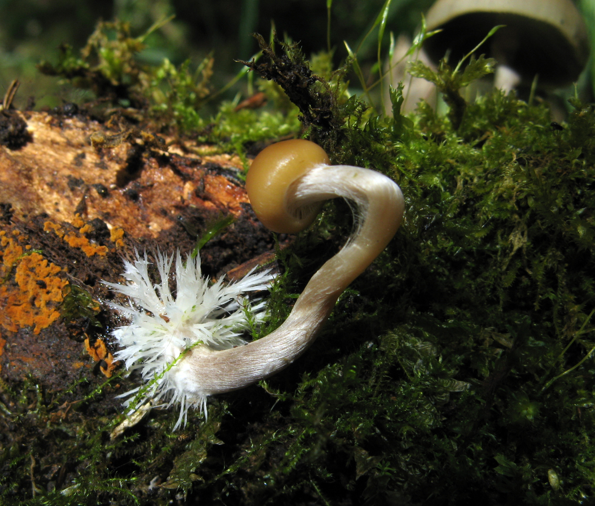 A fruit body of the psychedelic fungus Psilocybe aztecorum R. Heim, showing the prominent white rhizomorphs at the stem base. Specimen photographed in Nevado de Toluca, Mexico. "Notes: 11,500 feet elevation."